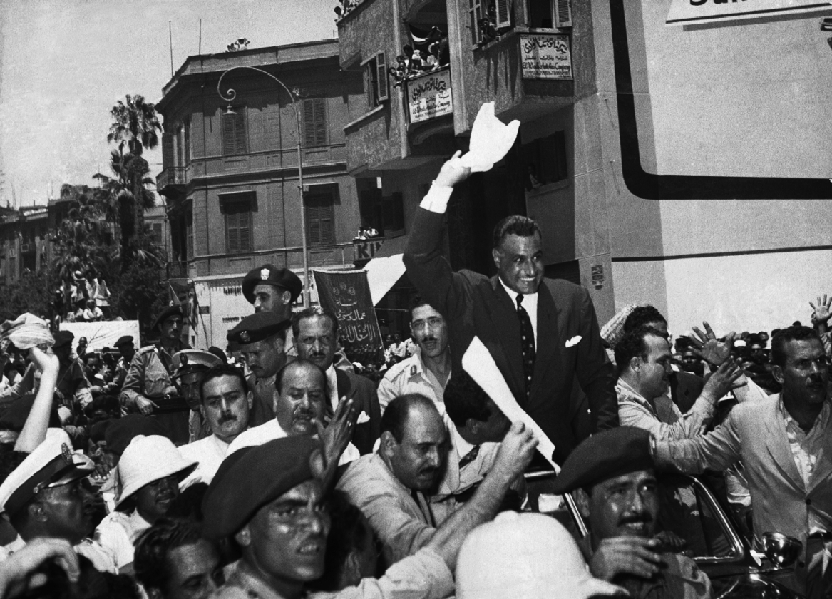 Egyptian Prime Minister Nasser cheered in Cairo after announcing the Suez Canal Company, August 1, 1956.